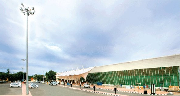 Coimbatore International Airport after Modernisation